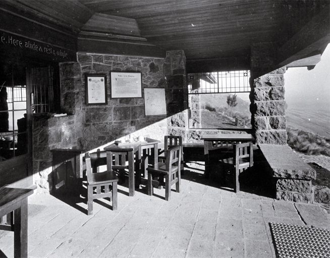 Serenity & shadow : the verandah of the Sign of the Kiwi, Port Hills, Christchurch.